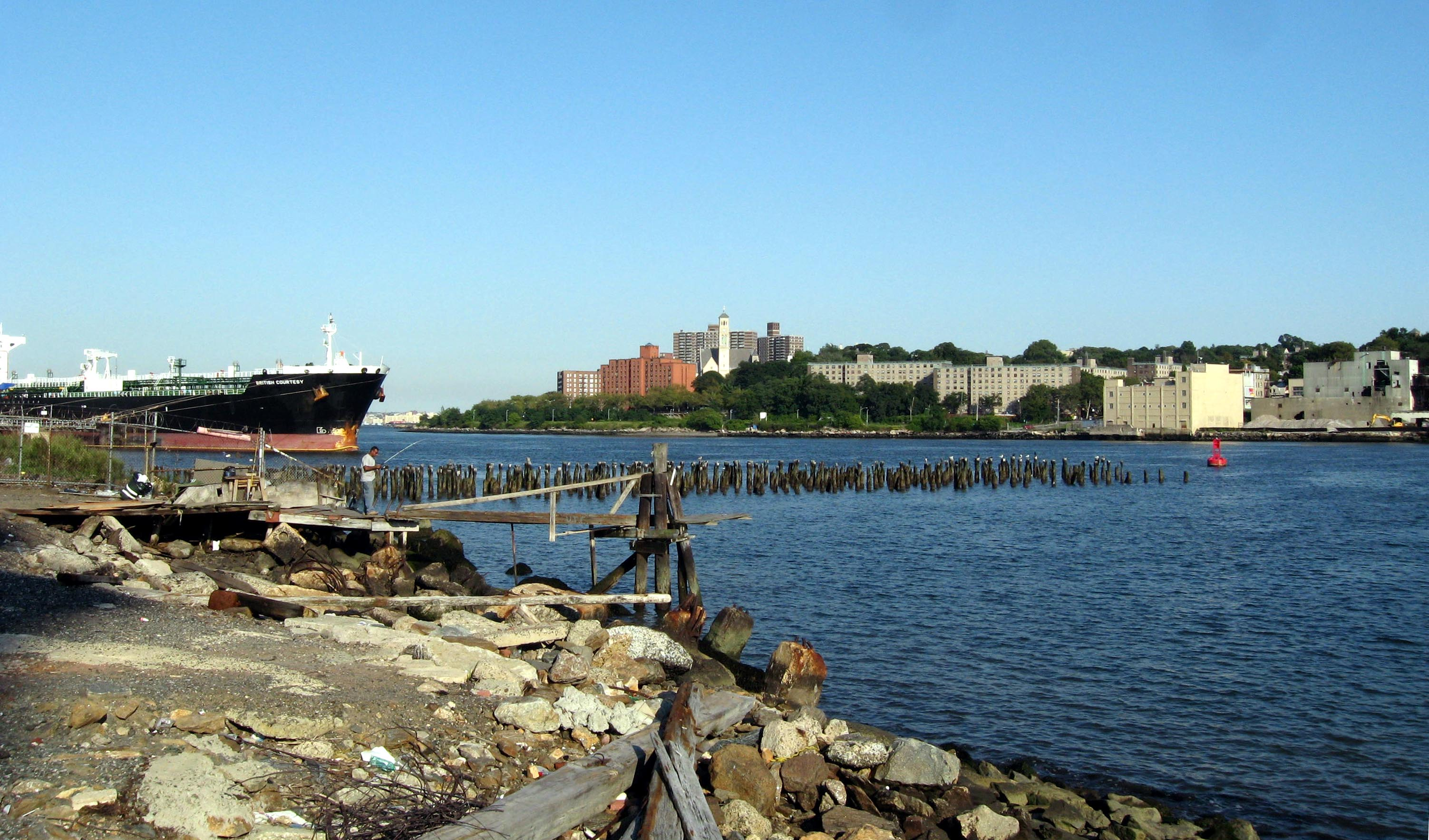 Looking east across Kill Van Kull from the foot of Commercial Street in Constable Hook, Bayonne at the North Shore, Staten Island on a sunny afternoon as tanker British Courtesy, IMO 9288825, enters Kill Van Kull